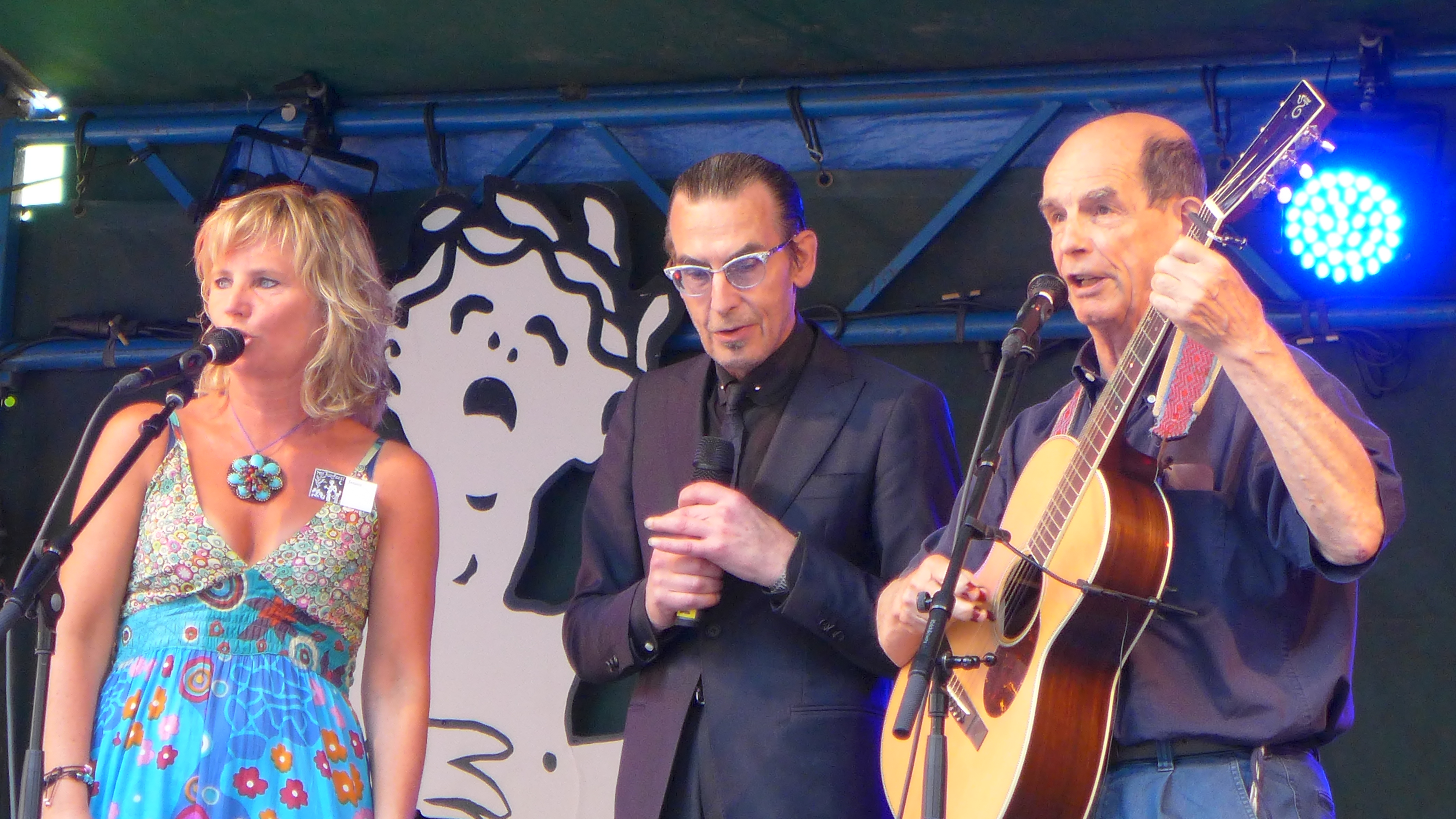 Jules Deelder is singing the song 'Rotterdamse vrouw' (lyrics and music by Joop Visser) together with Jessica van Noord and Joop Visser at the poetry festival 'Het Tuinfeest', Deventer, August 3 2013